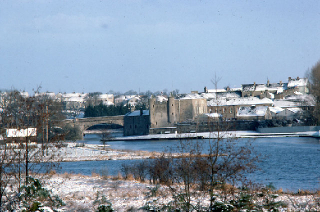 Enniskillen from Rossorry: before the new bridge was built. The Castle is the badge of the town.